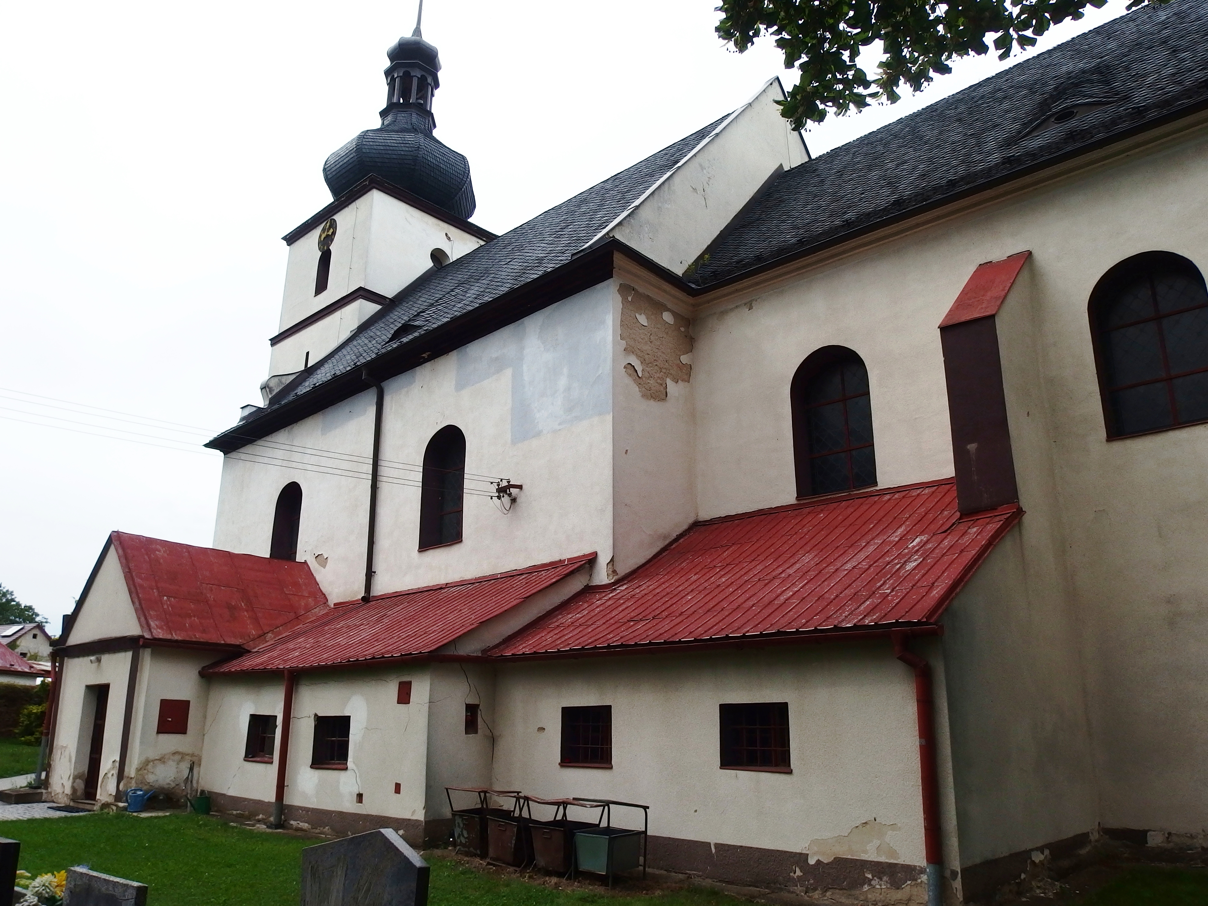 Úvalno, Bruntál District, Czech Republic. Church of Saint Nicholas.